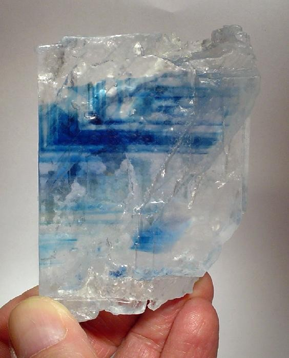 Halite Locality: Stassfurt, Stassfurt Potash deposit, Saxony-Anhalt, Germany (Locality at ) Size: 8.3 x 6.3 x 2.5 cm. A stunning, old-time halite crystal from a classic German locality - Stassfurt, Saxony-Anhalt. The beautiful azure-blue color banding is amazing. Rarely do you find halite in a form other than cubes or octahedrons, so this very sharp clear tabular crystal is truly a gem in its own right aside from being gemmy per se. It is sharper and even more lustrous in person. Complete all around.